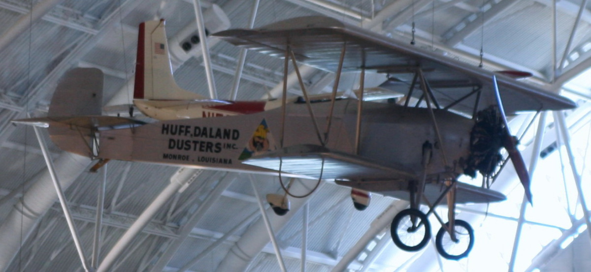 C.E. Woolman took over the company in 1928 and renamed it Delta Air Service (forerunner of Delta Air Lines) to reflect the addition of mail and passenger service in Travel Airs. The remains of two of the original 18 Dusters stayed in storage until 1967 when Delta Air Lines selected one of them for restoration. Its registration number is unknown.